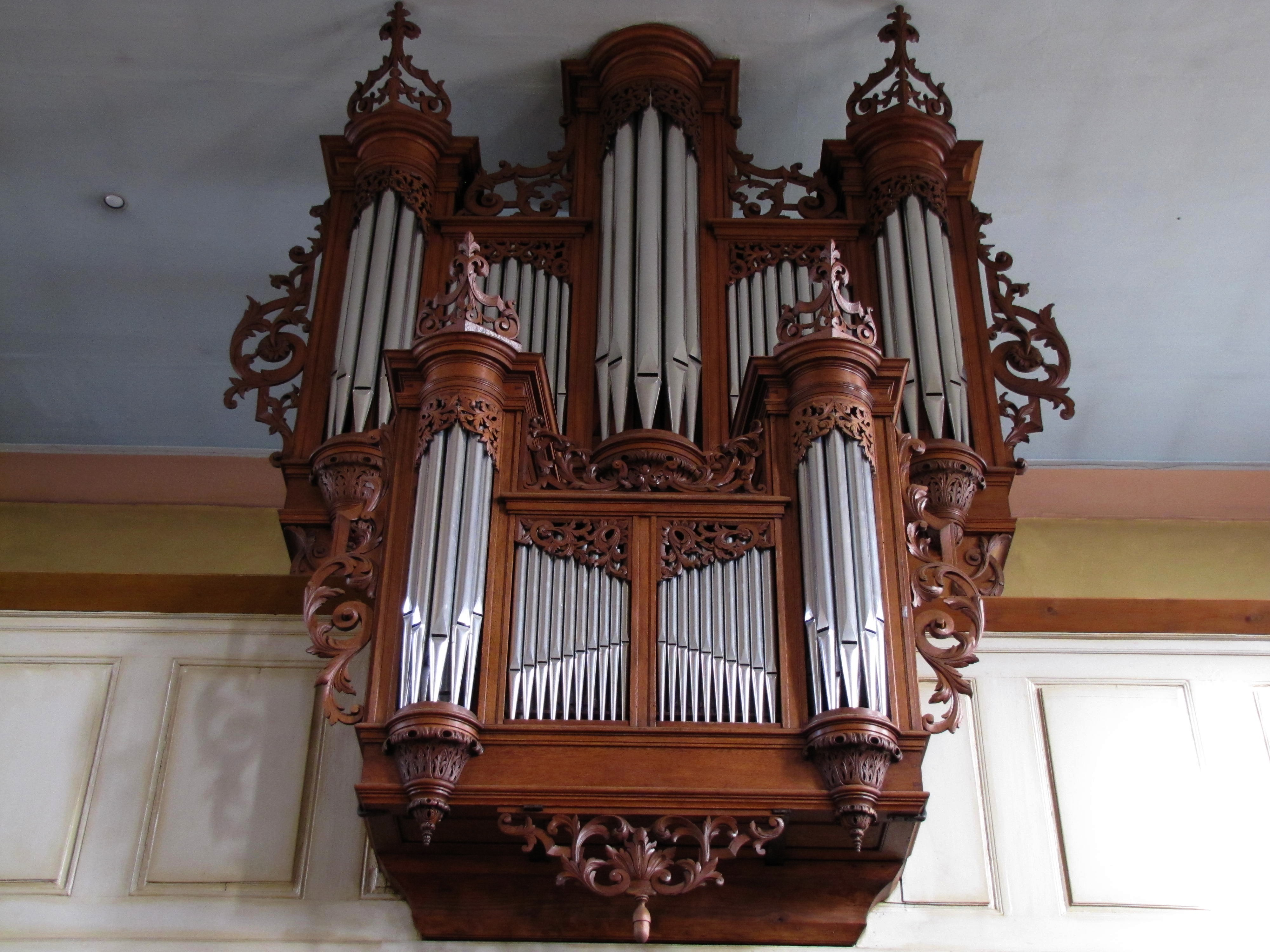 Alsace, Bas-Rhin, Waldolwisheim, Église Saint-Pancrace (IA00055499). Buffet de l'orgue Andreas Silbermann (1733) (construit pour l'église Saints-Pierre-et-Paul de Rosheim et transféré en 1863): This object is classé Monument Historique in the base Palissy, database of the French furniture patrimony of the French ministry of culture, under the references PM67001099, IM67003698 and buffet PM67000434 buffet.